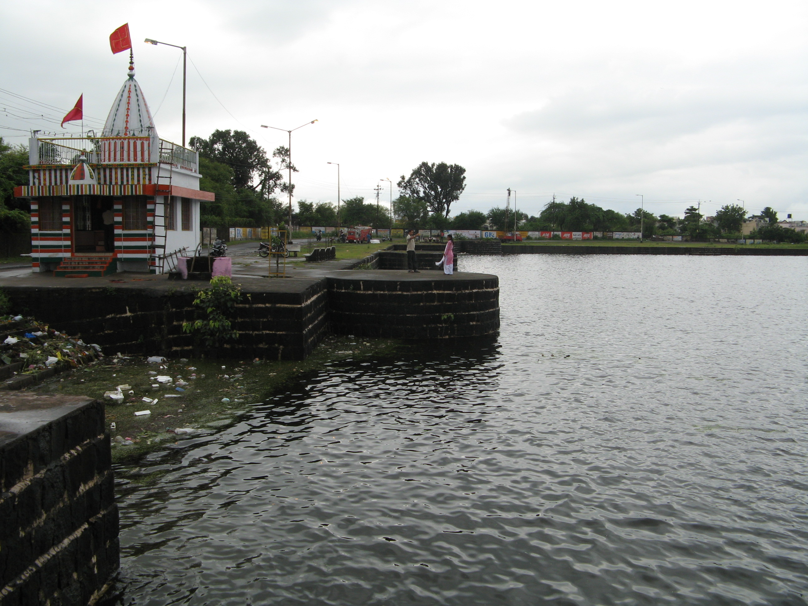 Temple built by Bhonsale on wall of Lake Sonegaon, Nagpur.